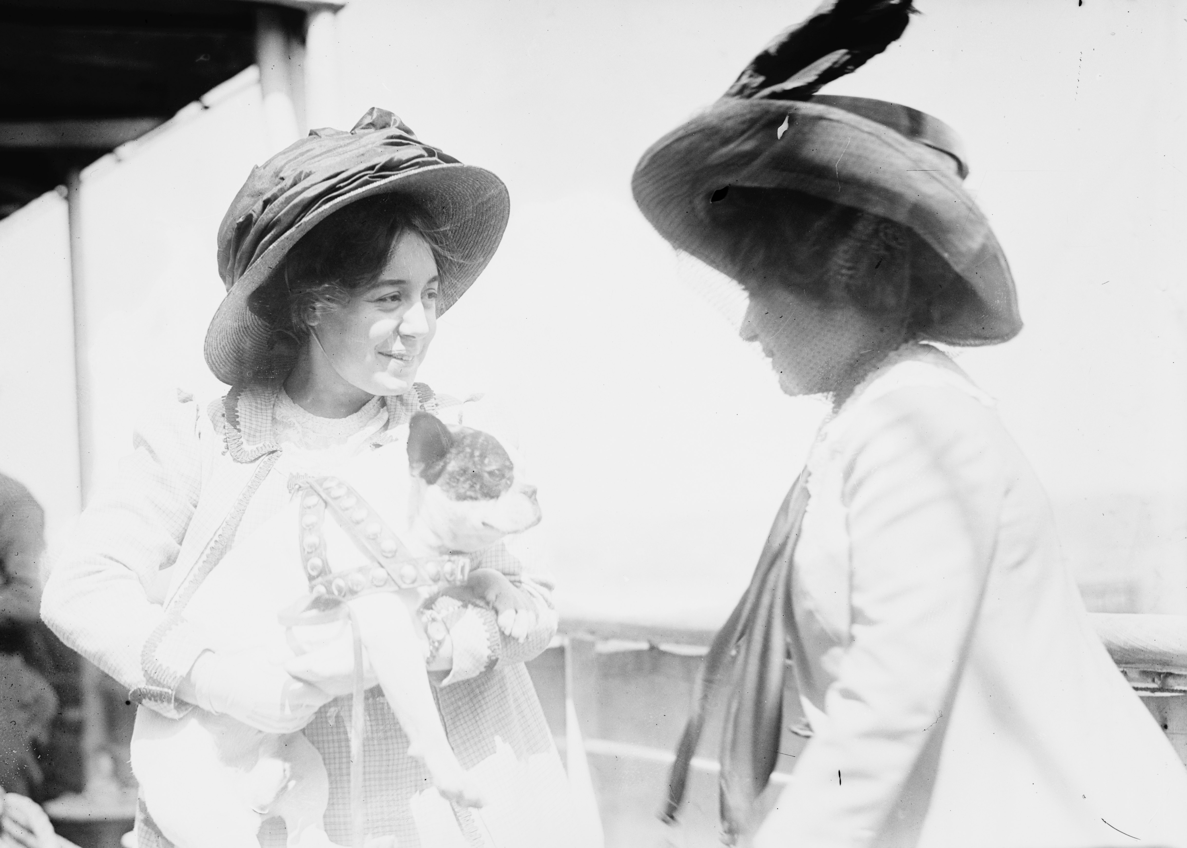 Title: Anna Held and daughter Abstract/medium: 1 negative : glass ; 5 x 7 in. or smaller.